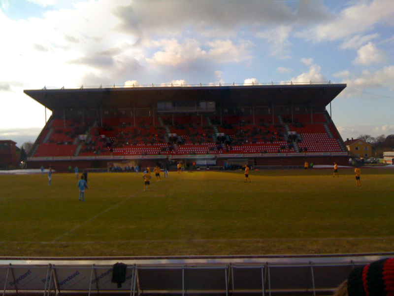 Interior shot inside Mellos Stadium / Melløs Stadion / Mellos Stadion. Home venue / arena of Norwegian football club Moss FK / Moss Football Club / Moss Fotballklubb.